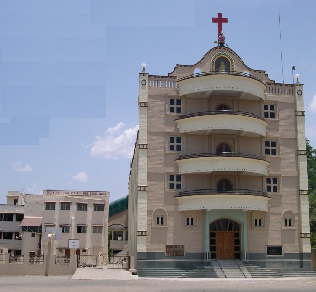 Mount Carmel School, Akola, India.